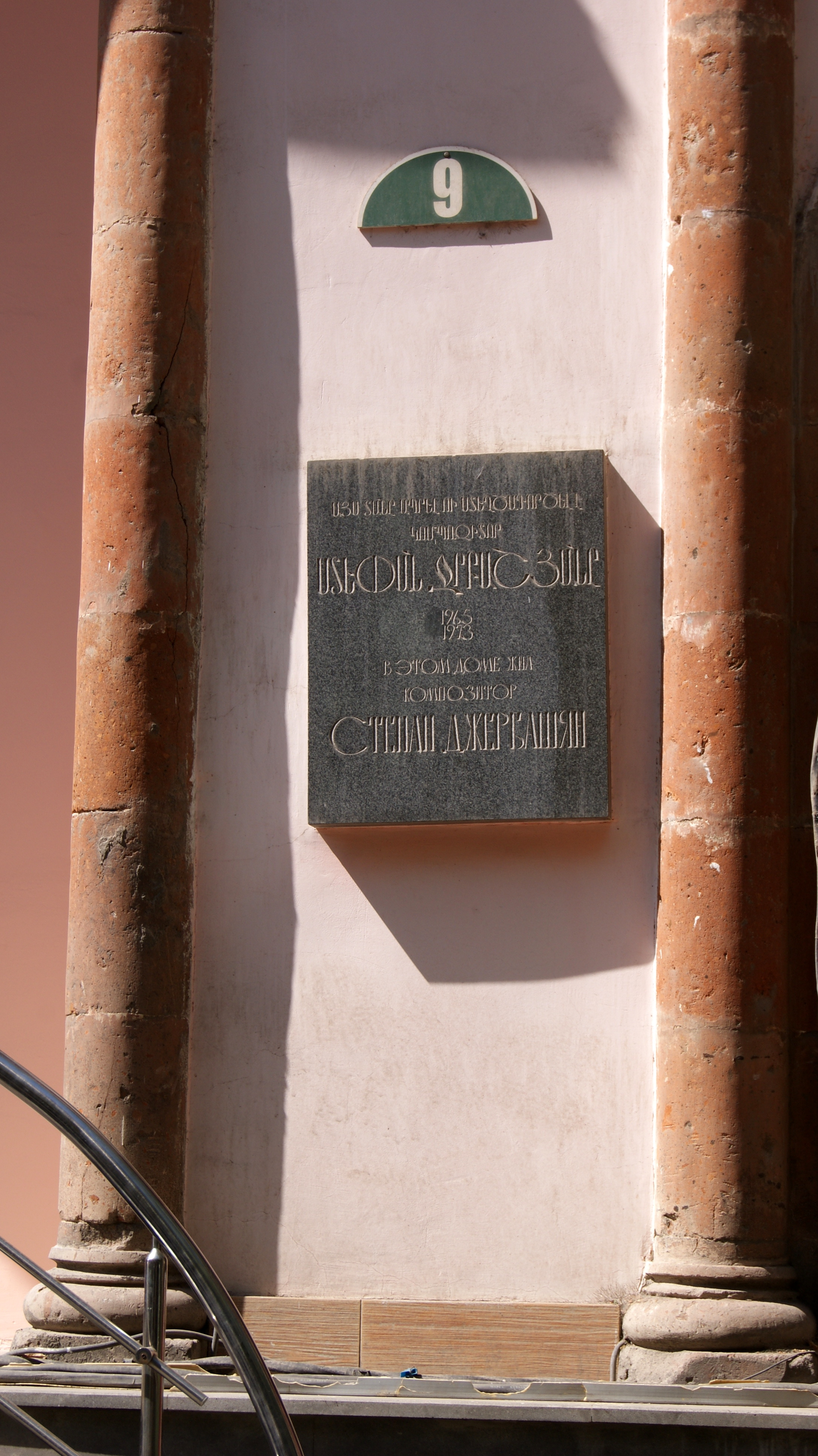 Cultural heritage monuments in Armenia